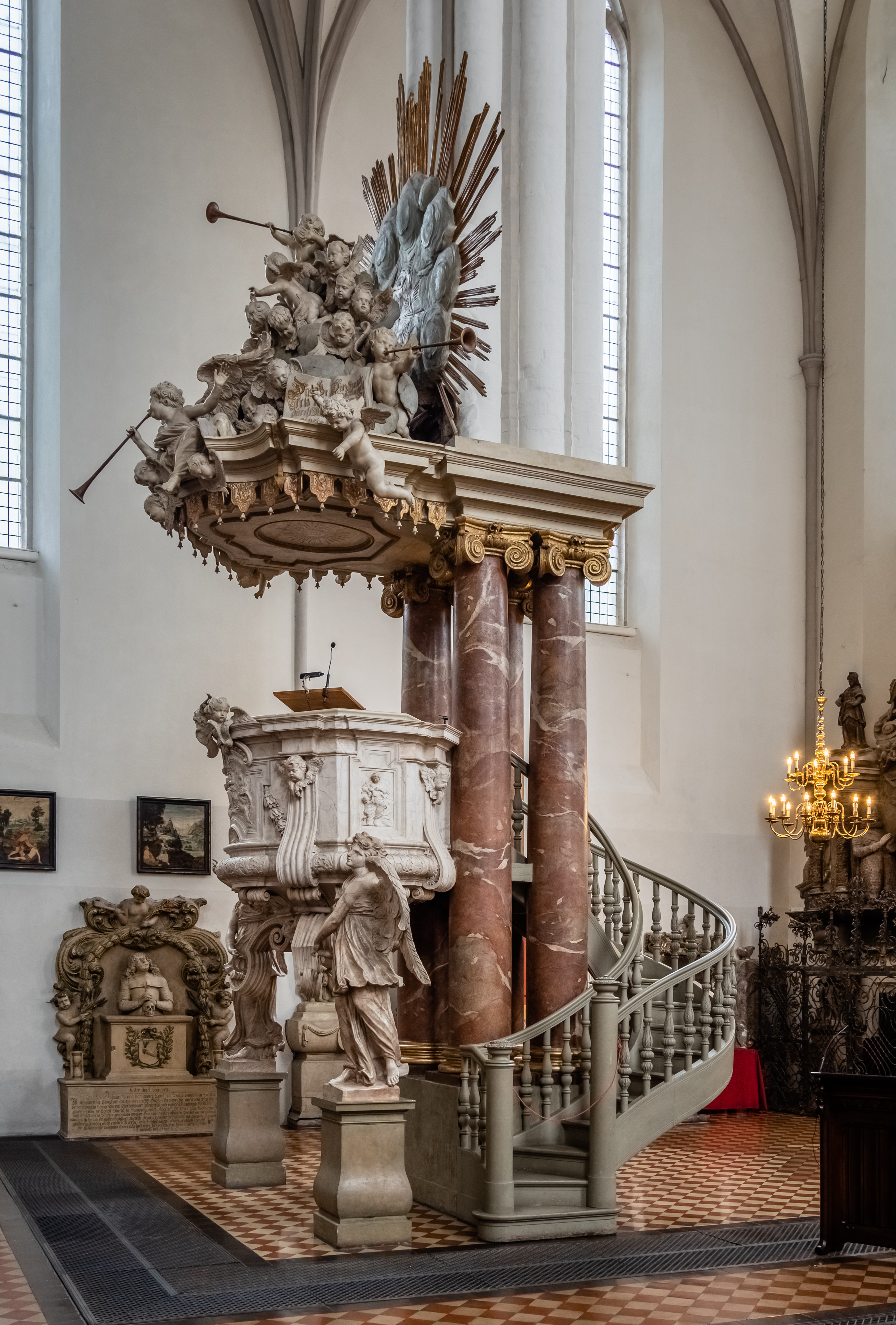 Pulpit of the Marienkirche in Berlin Mitte